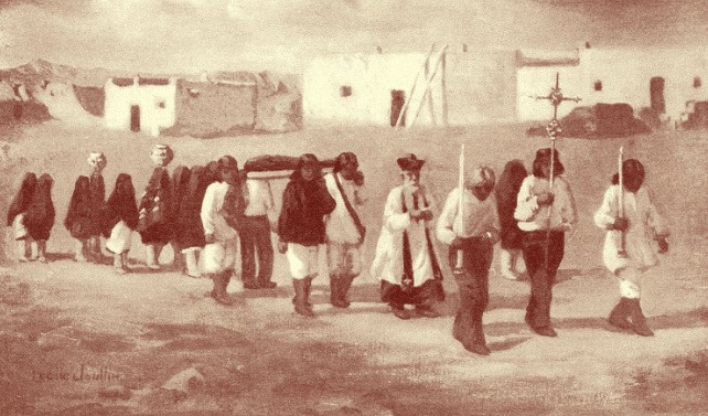 Lucille Joullin' s painting: Isleta procession in the 1900 featuring Padre Anton Docher